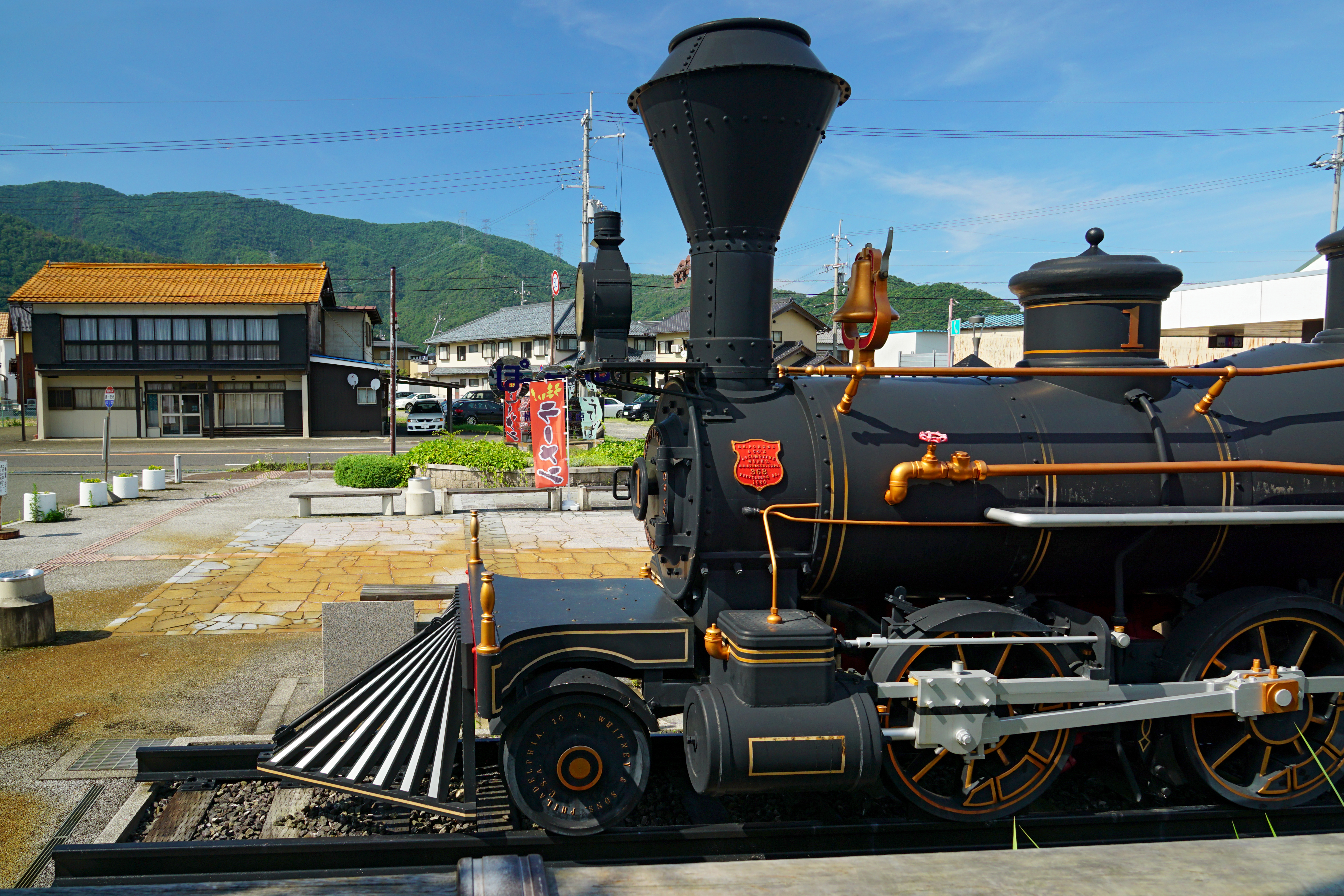 Wakasa-Hongō Station in Ōi, Fukui prefecture, Japan.